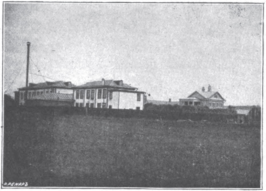 Timashov factory at Vsekhsvyatskoe